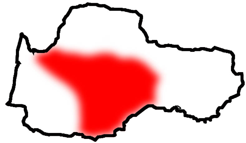 Languedocien dialect of occitan language